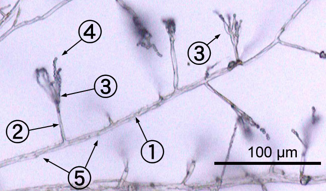 microscopic image of Penicillium sp. (environmental isolate) with annotation. Magnification:200 # hypha # conidiophore # phialide # conida # septa. Cropped using jpegcrop.